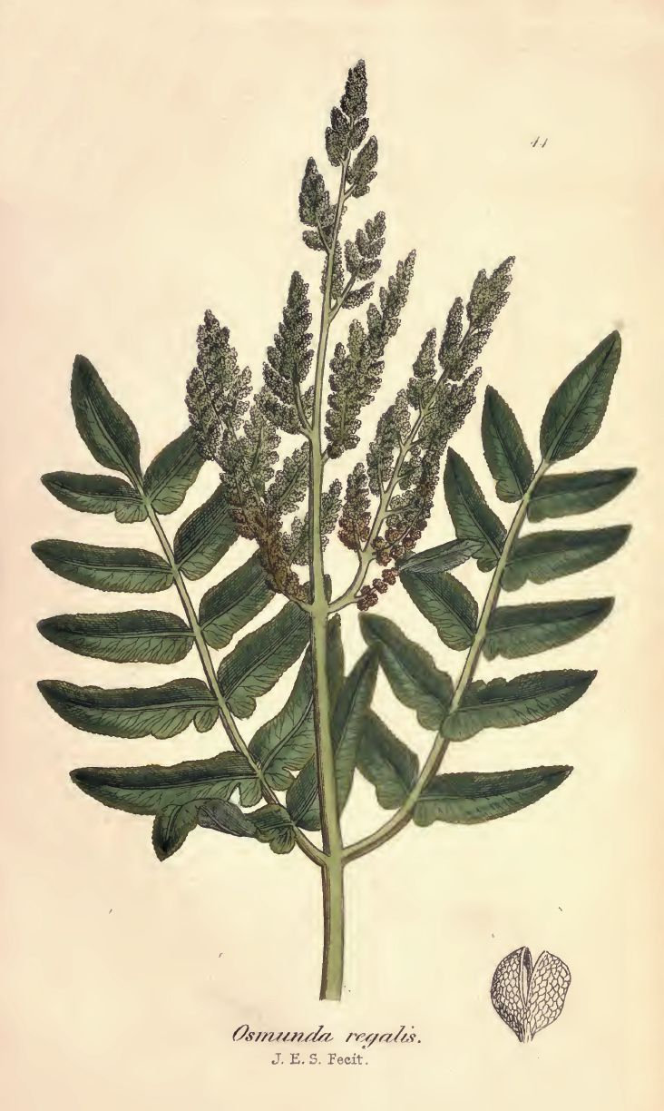 Plate from "The ferns of Great Britain" illustrated by John Edward Sowerby, text by Charles Johnson (1791-1880)